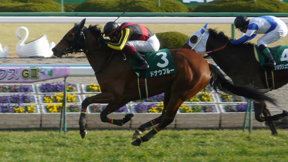 Donau-blue20120129(1)